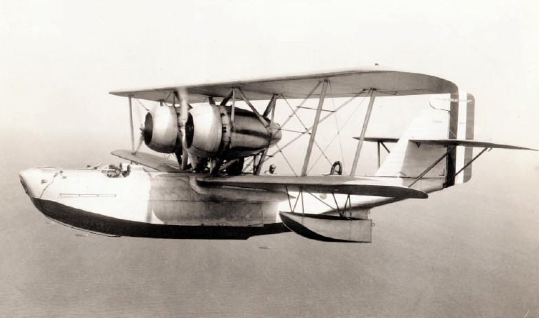 A U.S. Navy Hall PH-1 flying boat in flight. Nine PH-1s equipped patrol squadron VP-8F at Naval Air Station Ford Island, Hawaii (USA), from 1932 to 1937.